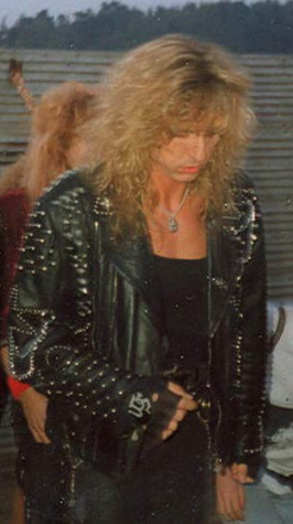 David Coverdale backstage at the Donnington Festival in 1990)